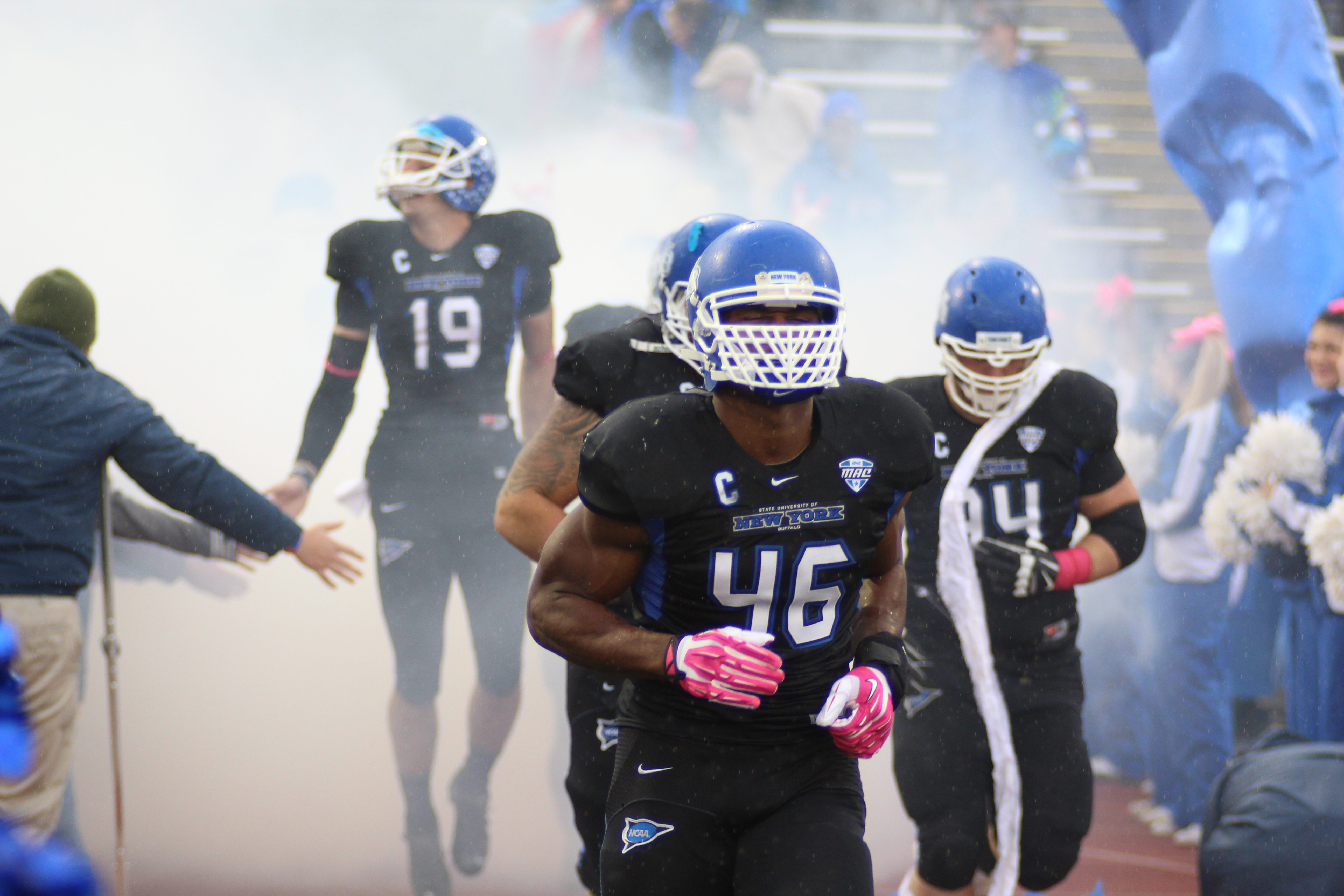 Khalil Mack coming out of the tunnel for University at Buffalo football.